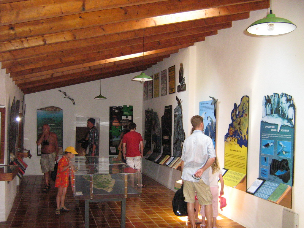 View inside the ranger station on Sa Dragonera Island, Mallorca, Spain